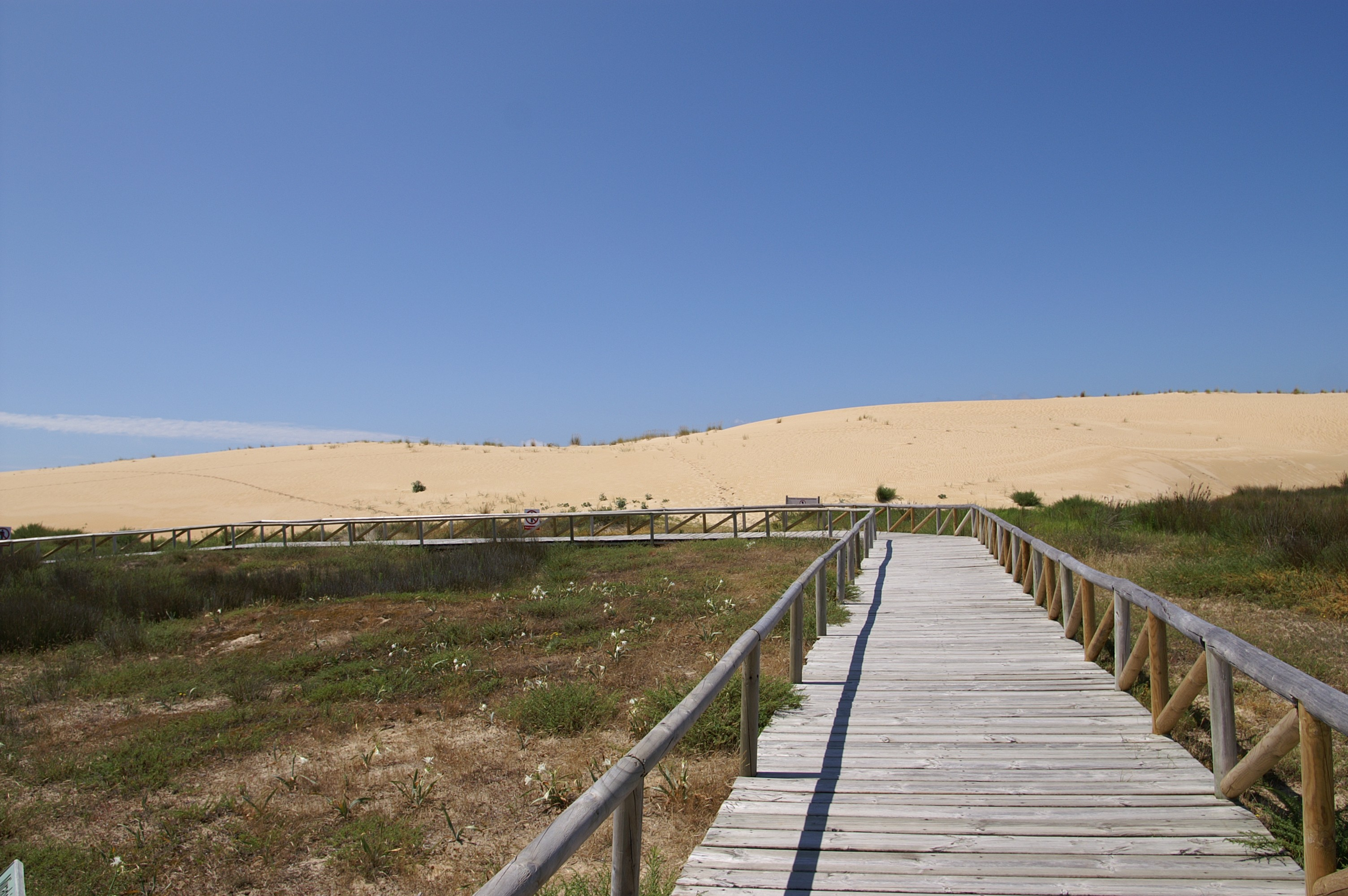 Dunas de Corrubedo, Ribeira, Galicia (Spain)